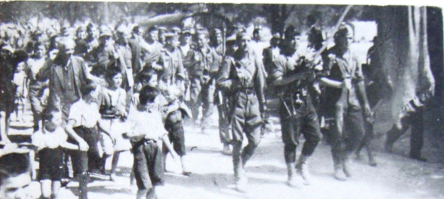 Celebration welcoming the heads of NOV and POM, at liberation of Prilep. (3 November 1944) This media file is produced by Wikipedian in Residence in Category:Wikipedian in Residence at DARM in 2016.